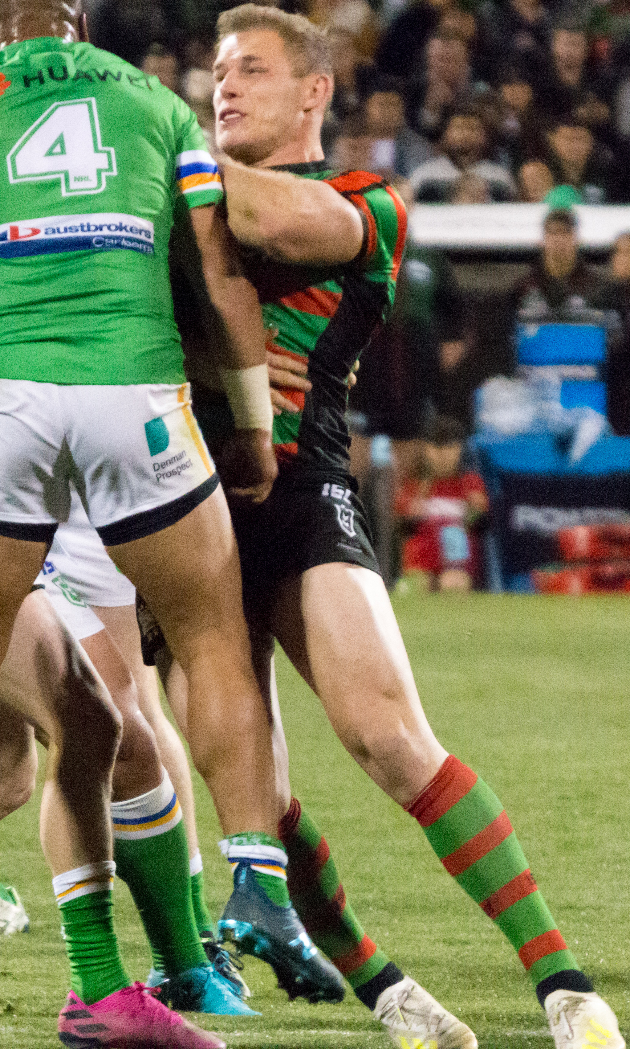 Dunamis Lui